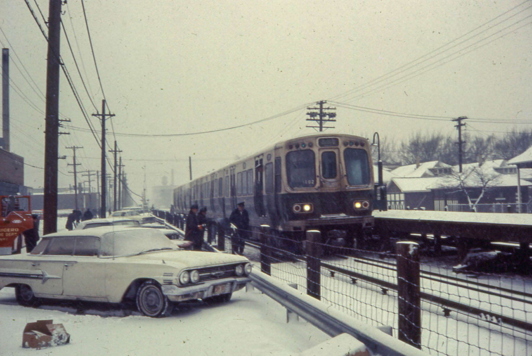 19680113 03 CTA 2117 50th Ave.